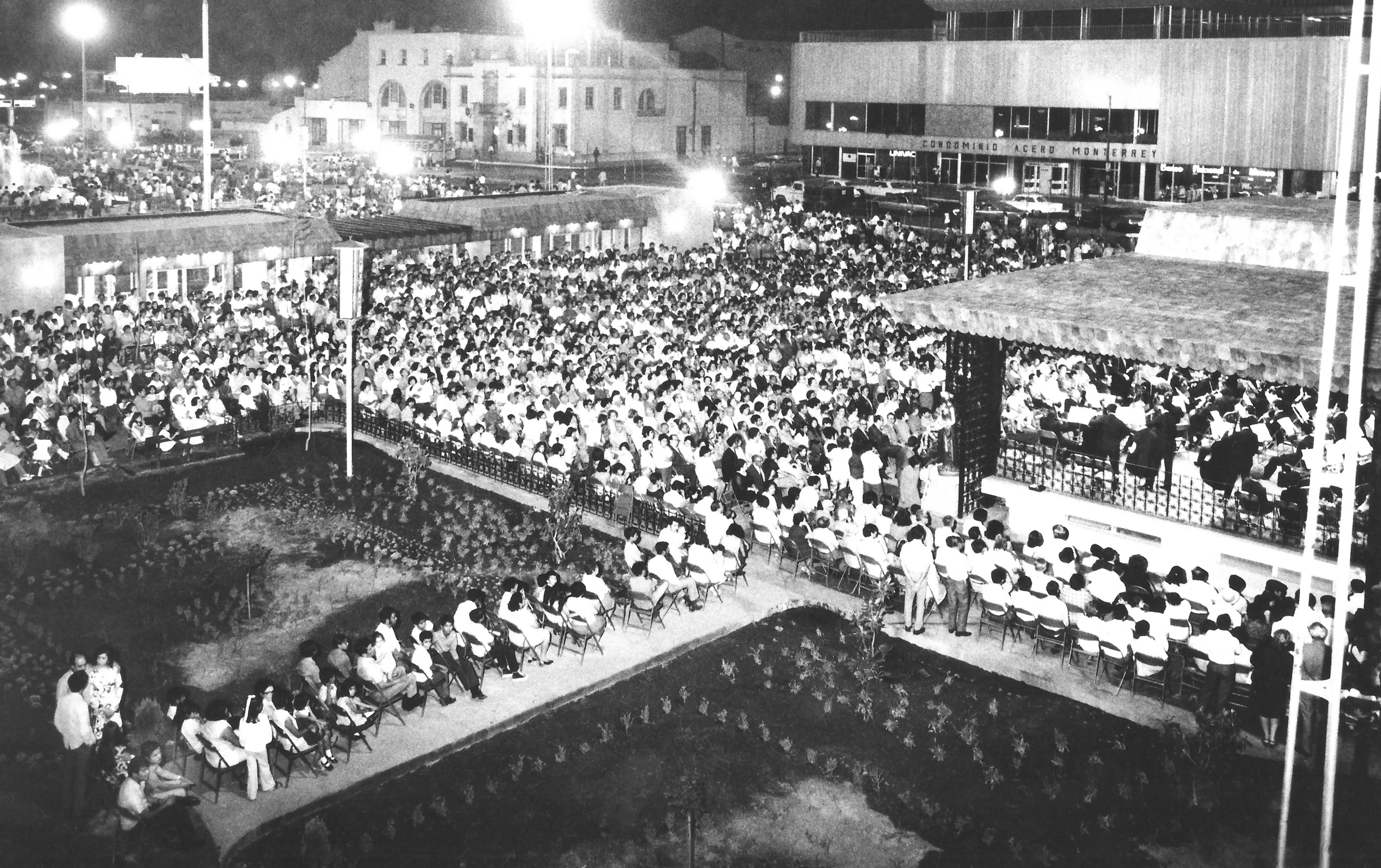 Outdoor concert presented by the Northwest Symphony Orchestra (OSNO) under the conduction of Luis Ximénez Caballero in Monterrey, Nuevo León (1971)